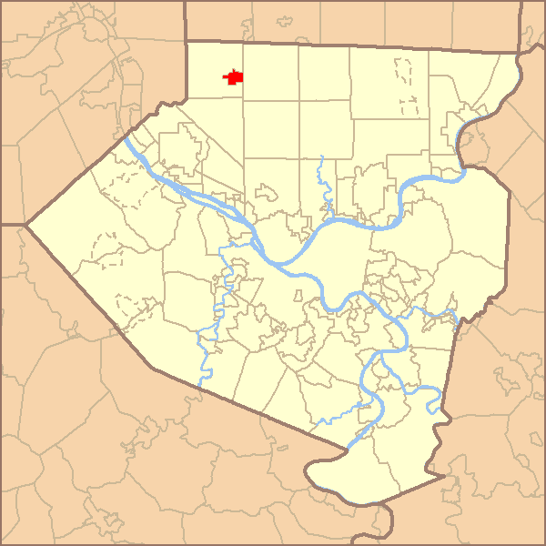 Map highlighting the municipality within Allegheny County, Pennsylvania.